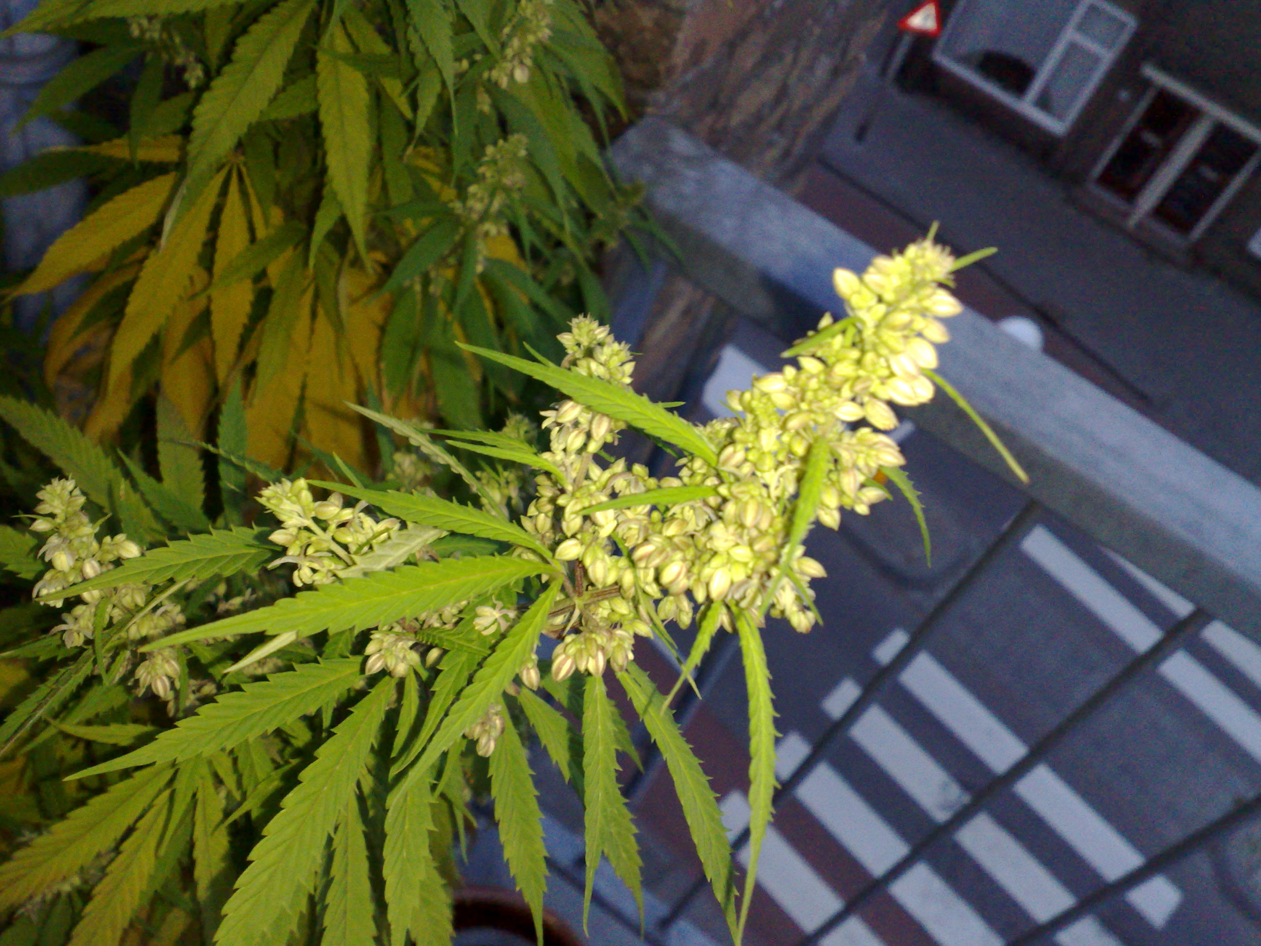 Photo of a male Marijuana plant in flowering stage. This is a Cannabis sativa × Cannabis indica hybrid called "Super Silver Haze".